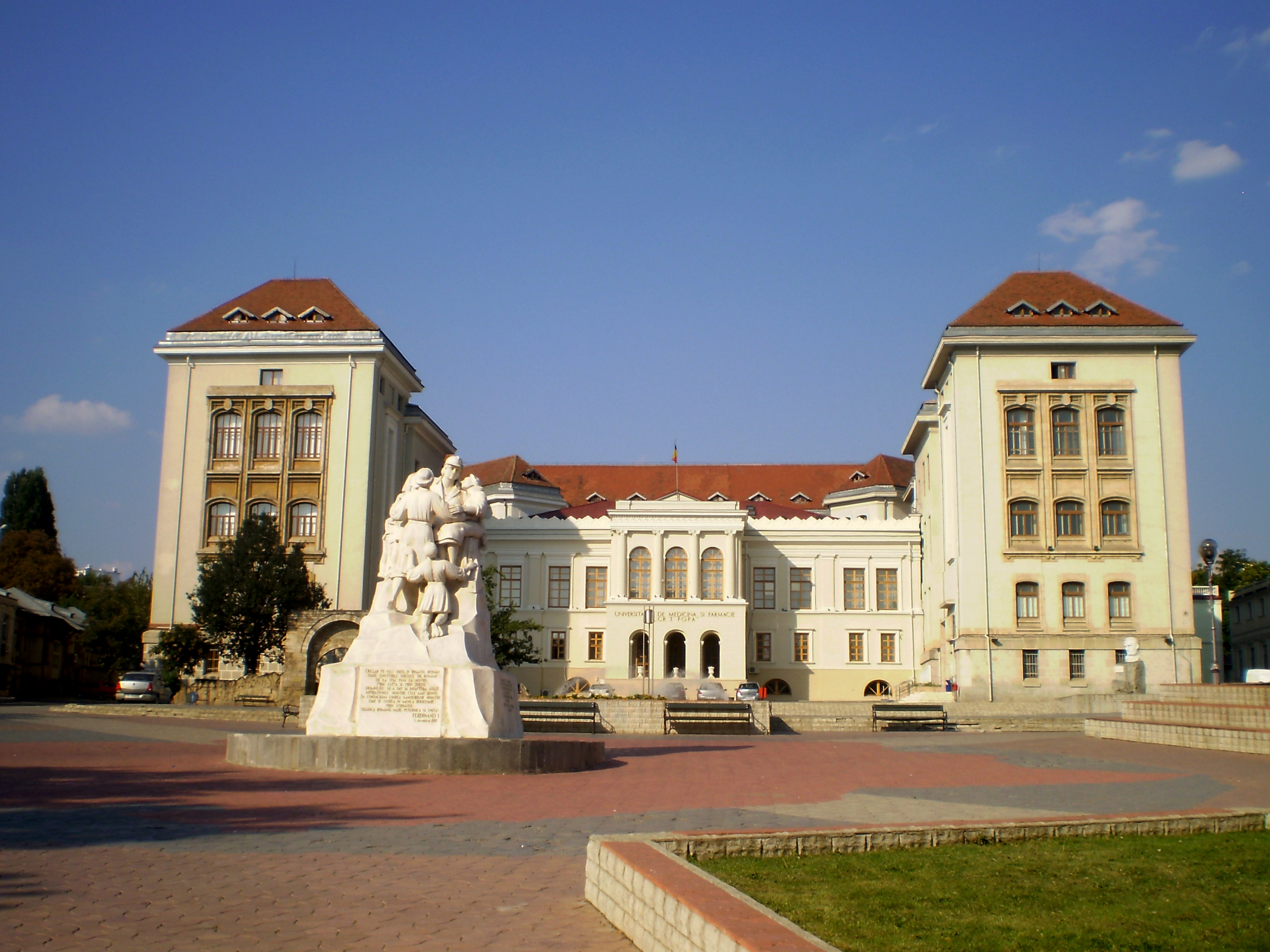 University of Medicine and Pharmacy , Iaşi , RomaniaRomână: Iaşi , Facultatea de medecină şi farmacie , Iaşi , România